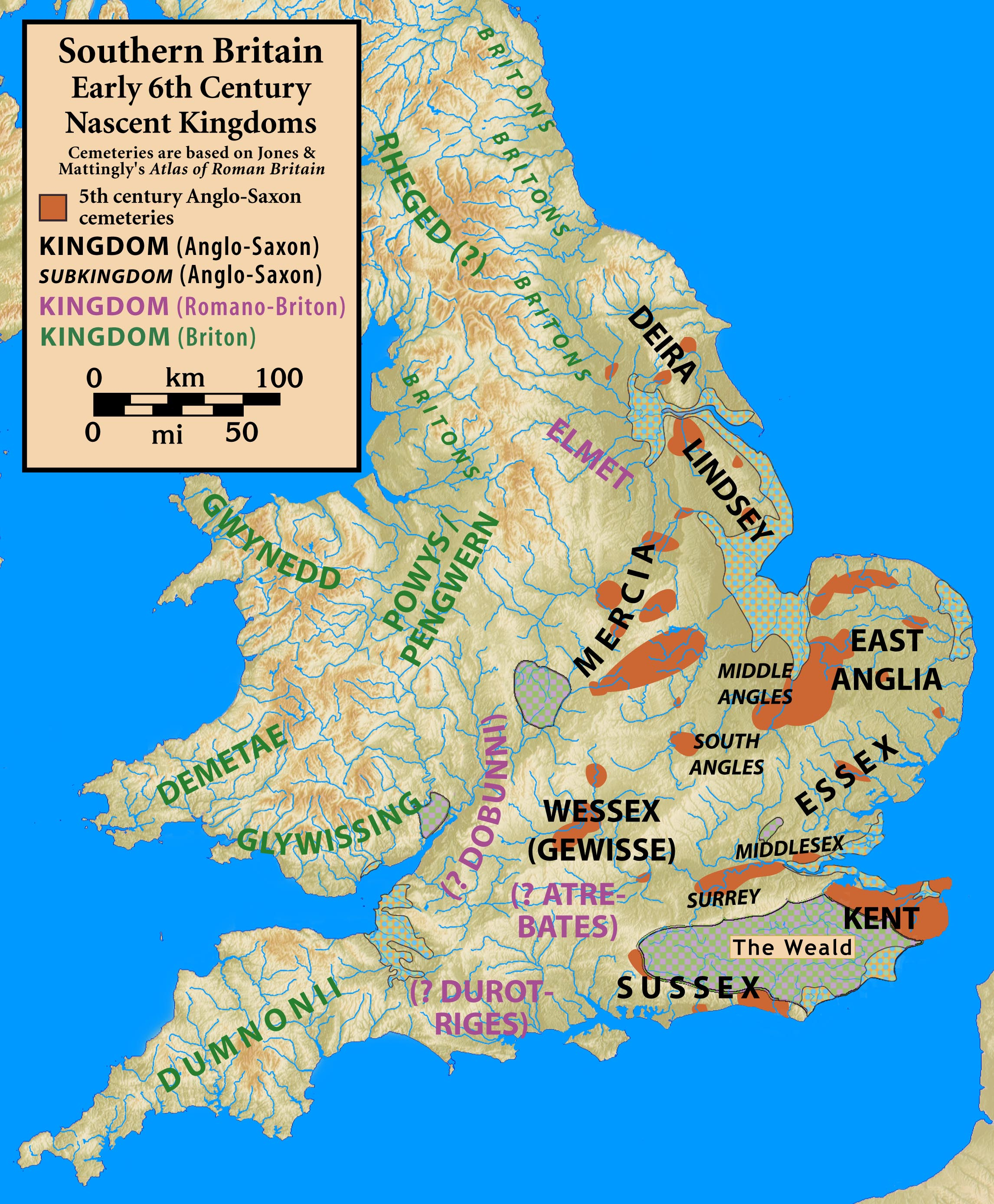 Southern Britain, Early 6th Century, Nascent Kingdoms